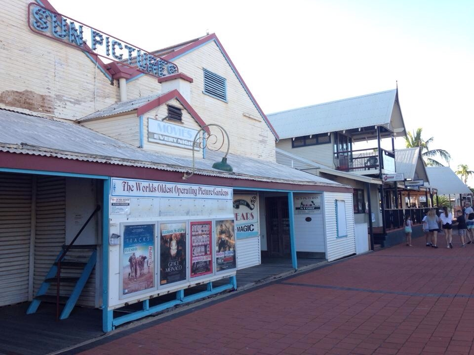 Carnarvon Street Frontage to Sun Picture Garden in Broome Western Australia